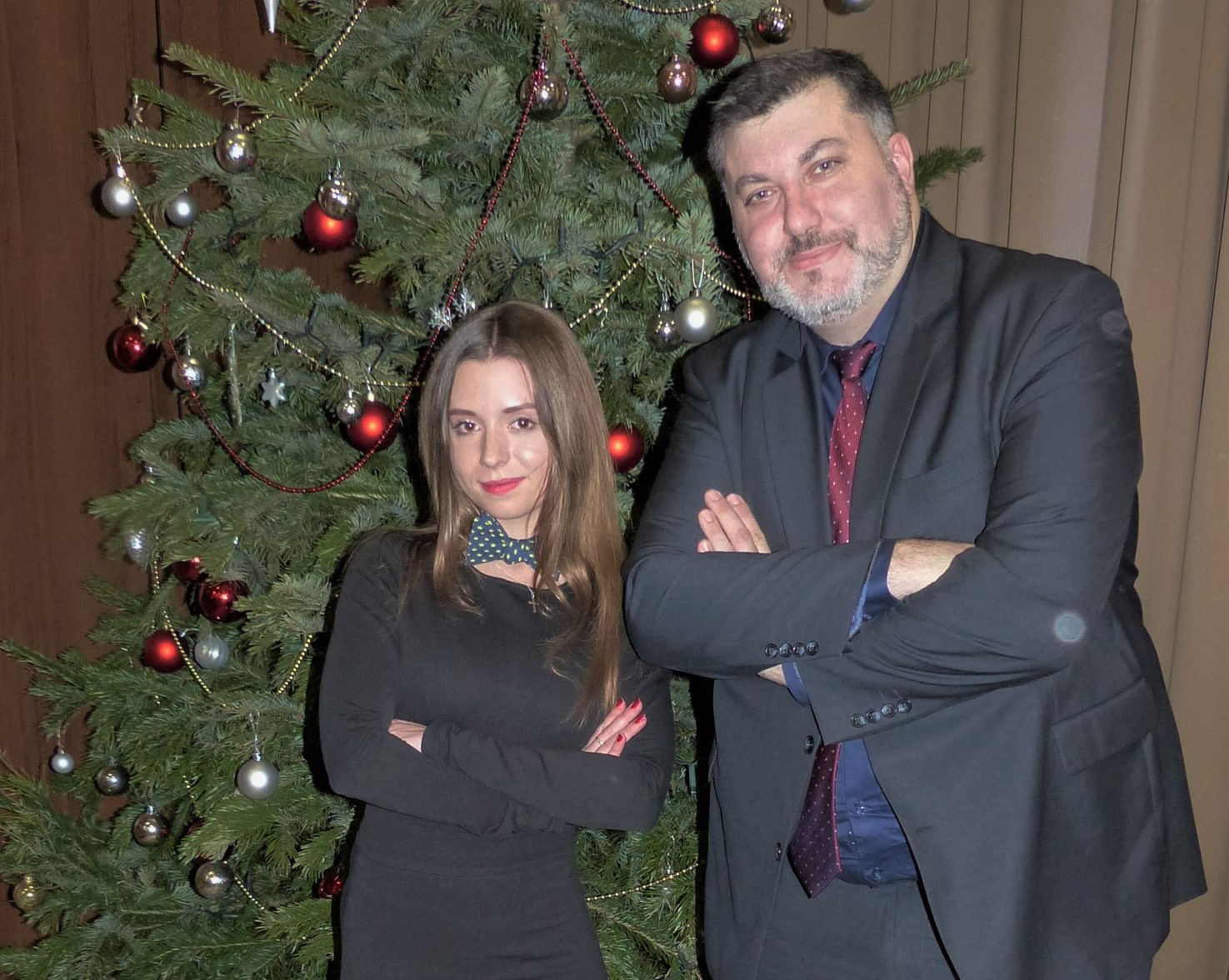 Artur Dziambor - Polish politician, teacher and entrepreneur, member of the Sejm of the 9th term, vice president of the KORWiN party. Kielce, December 14, 2019 - Confederate presidential primaries.